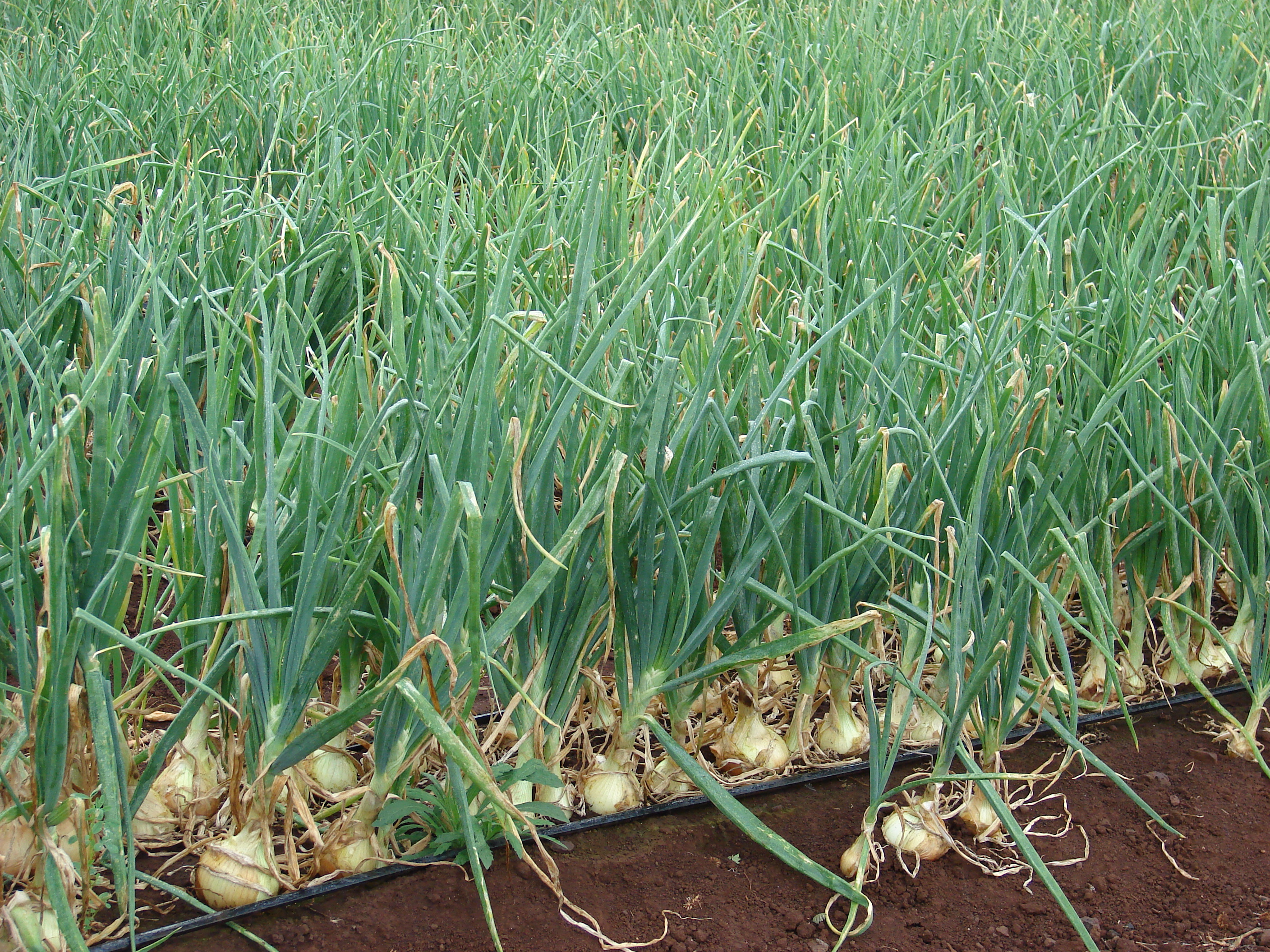 Allium cepa (crop). Location: Maui, Kula Ag Park Pulehu